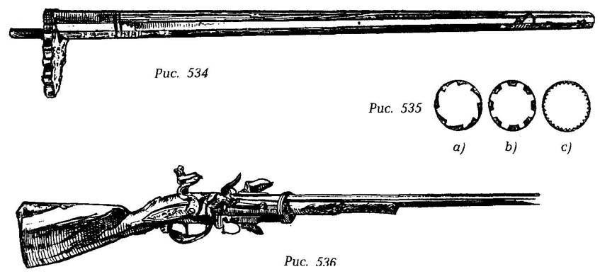 Type of revolver, illustration from a book "Handbuch der Waffenkunde" Das Waffenwesen in seiner historischen Entwicklung vom Beginn des Mittelalters bis zum Ende des 18 Jahrhunderts" by Wendelin Boeheim, , Leipzig, 1890